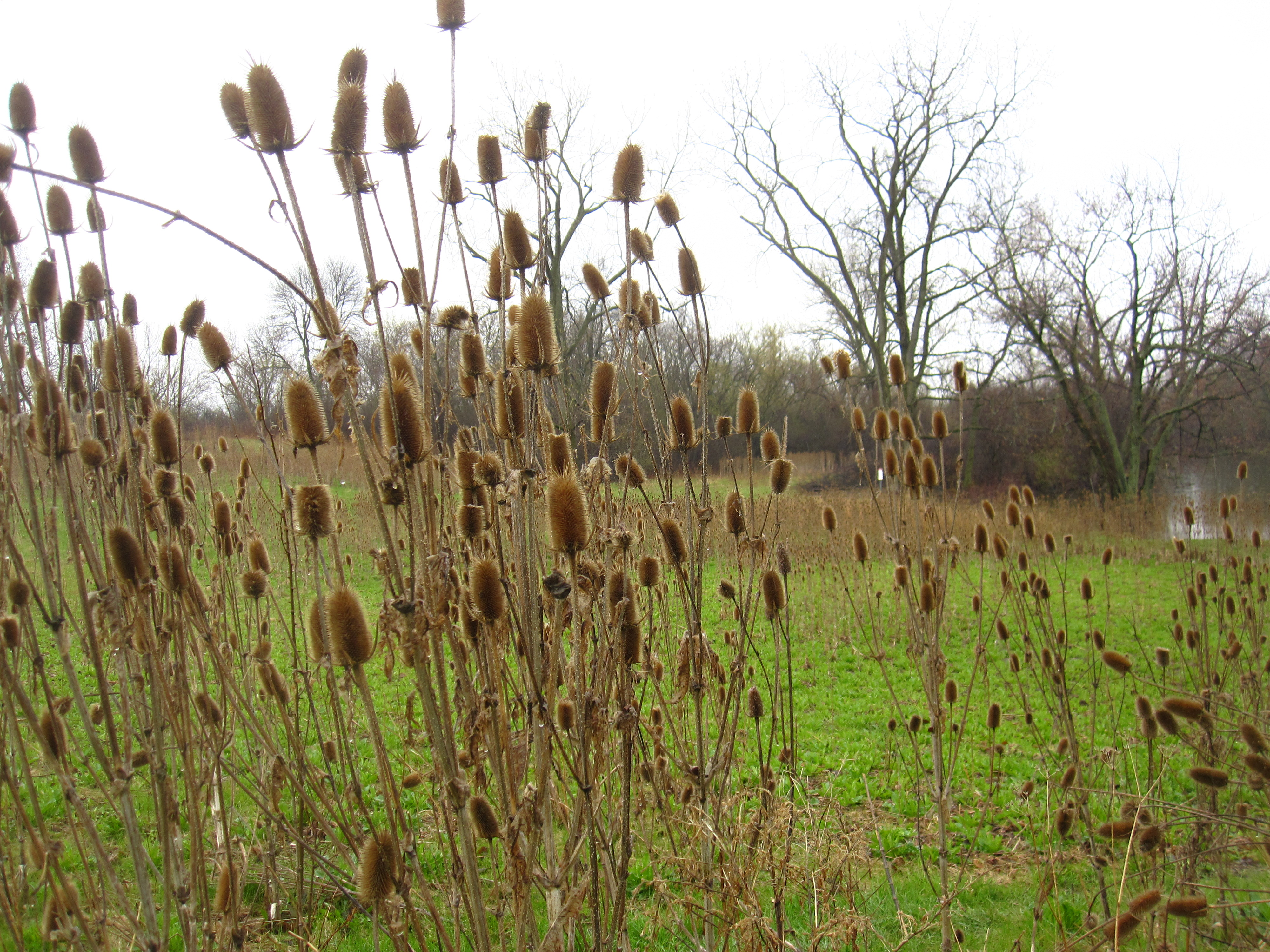 Dipsacus laciniatus (cut-leaved teasel) at Skokie Lagoons in Glencoe, IL. Photo by Cassi Saari